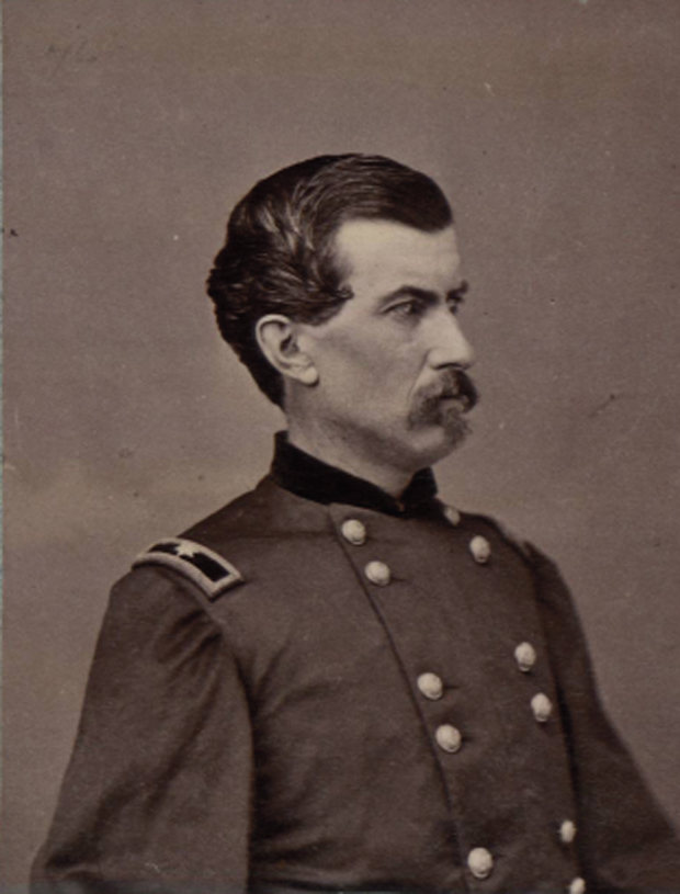 Portrait photo of General James Monroe Williams (1833-1907)